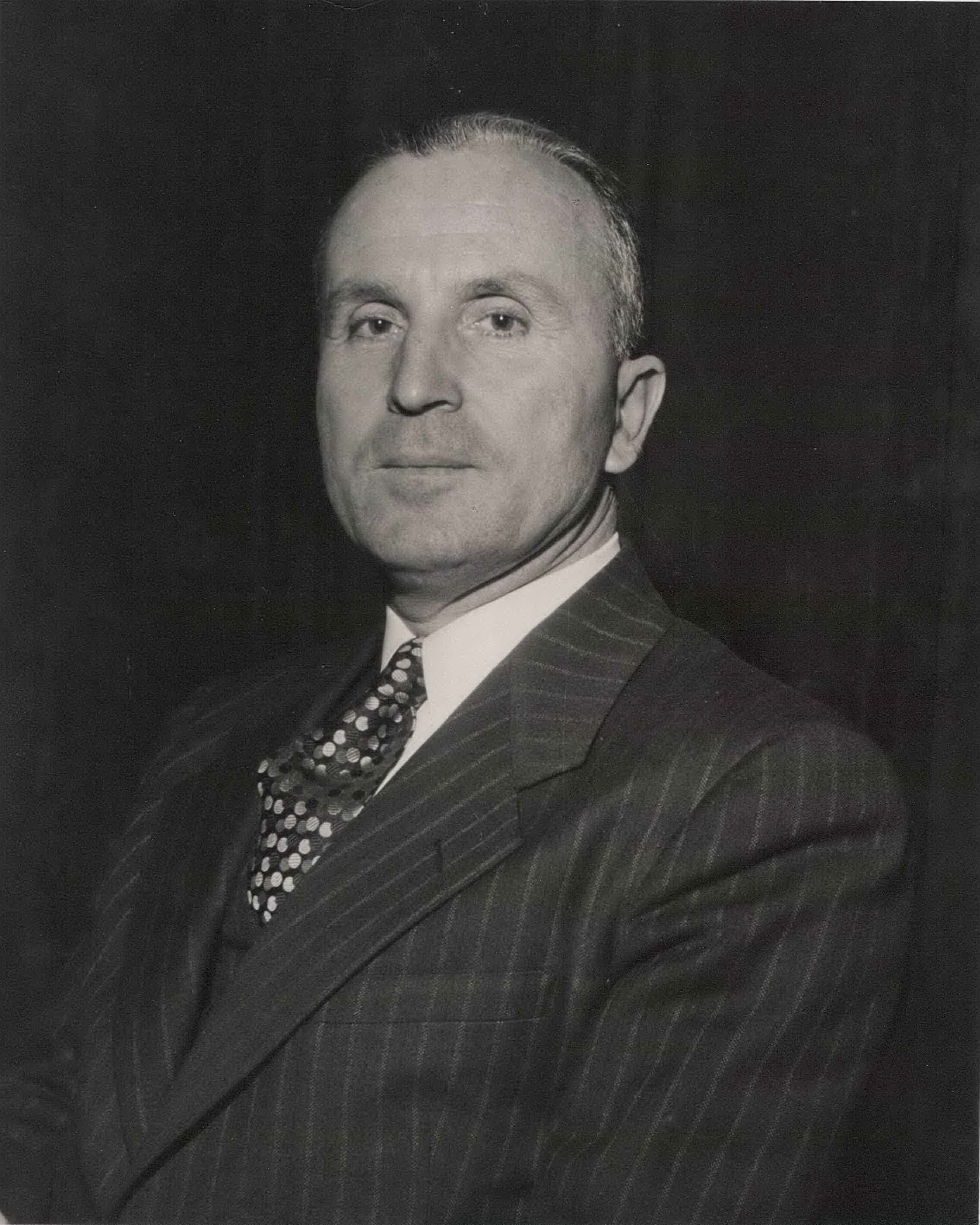 Abdallah El-Yafi (1901-1986), Lebanese polititian appointed several times as chief of government.